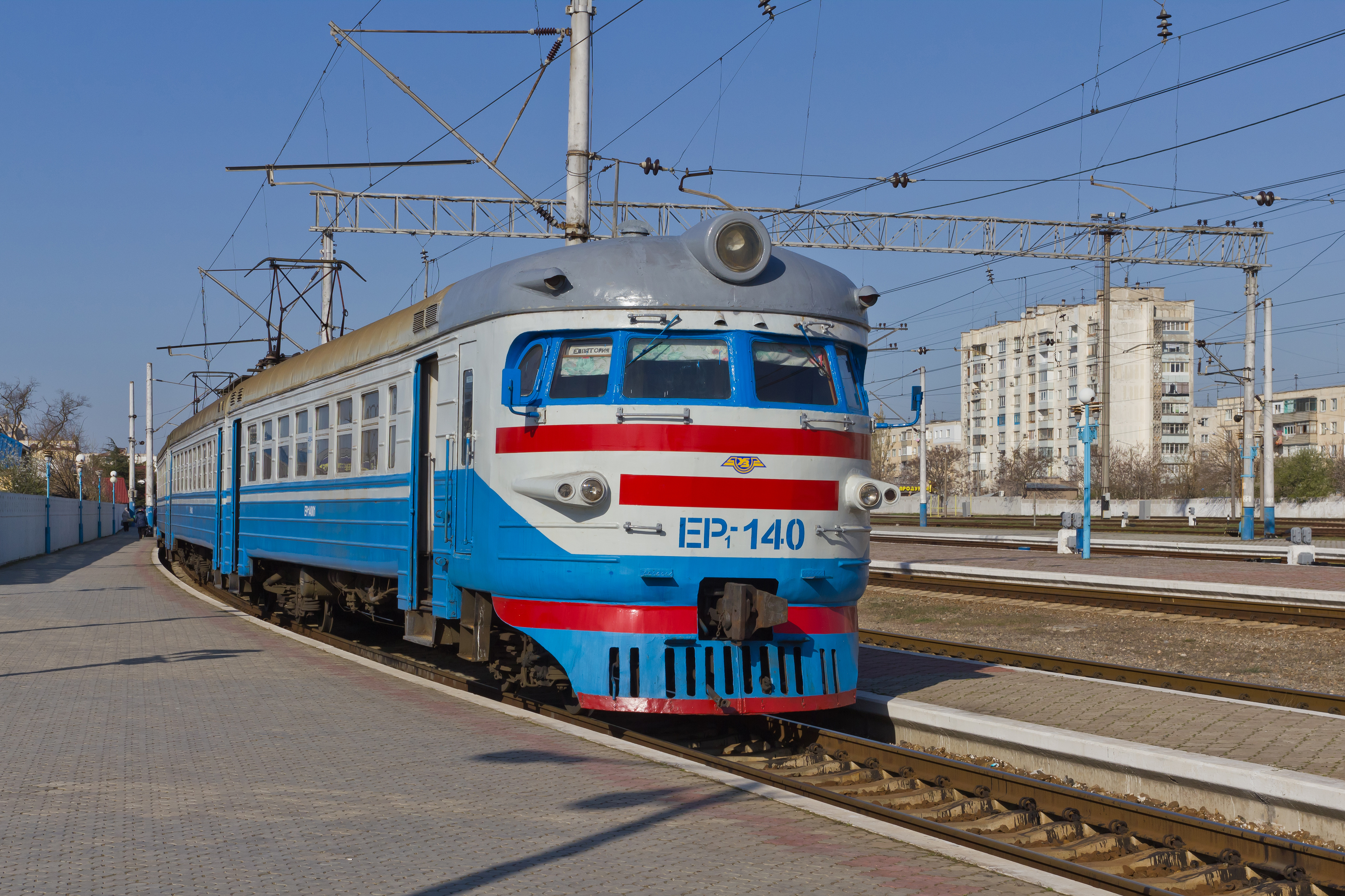 Main railway station Yevpatoriya-Kurort in Eupatoria, Crimean Peninsula.